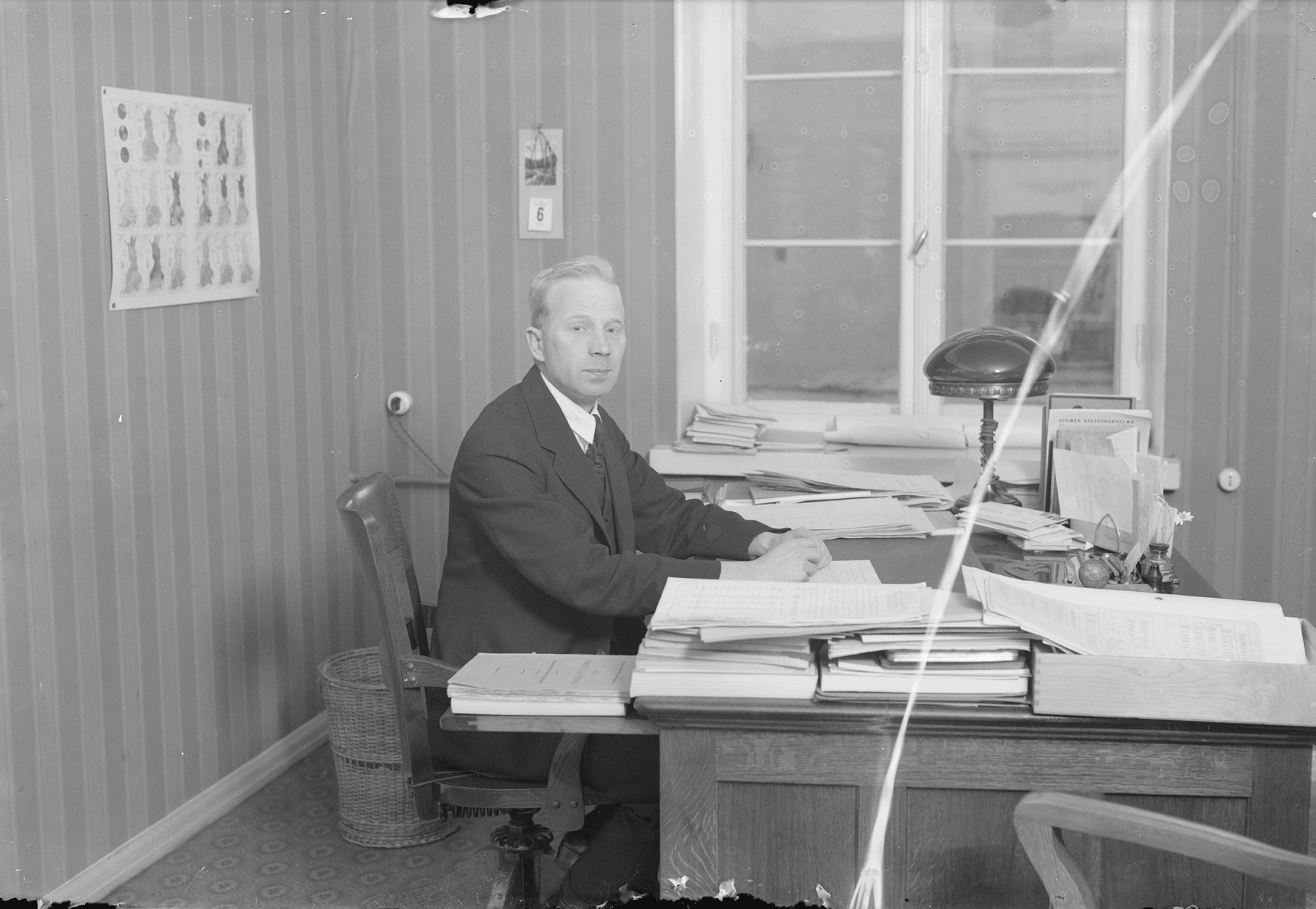 Photograph of the Finnish forester Yrjö Ilvessalo (1892–1983).